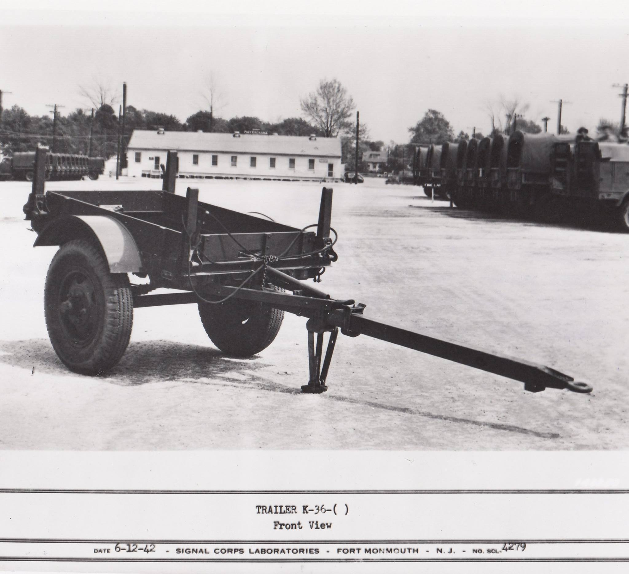 K-36 Trailer photograph used in a military vehicle identification. (TM number unknown)